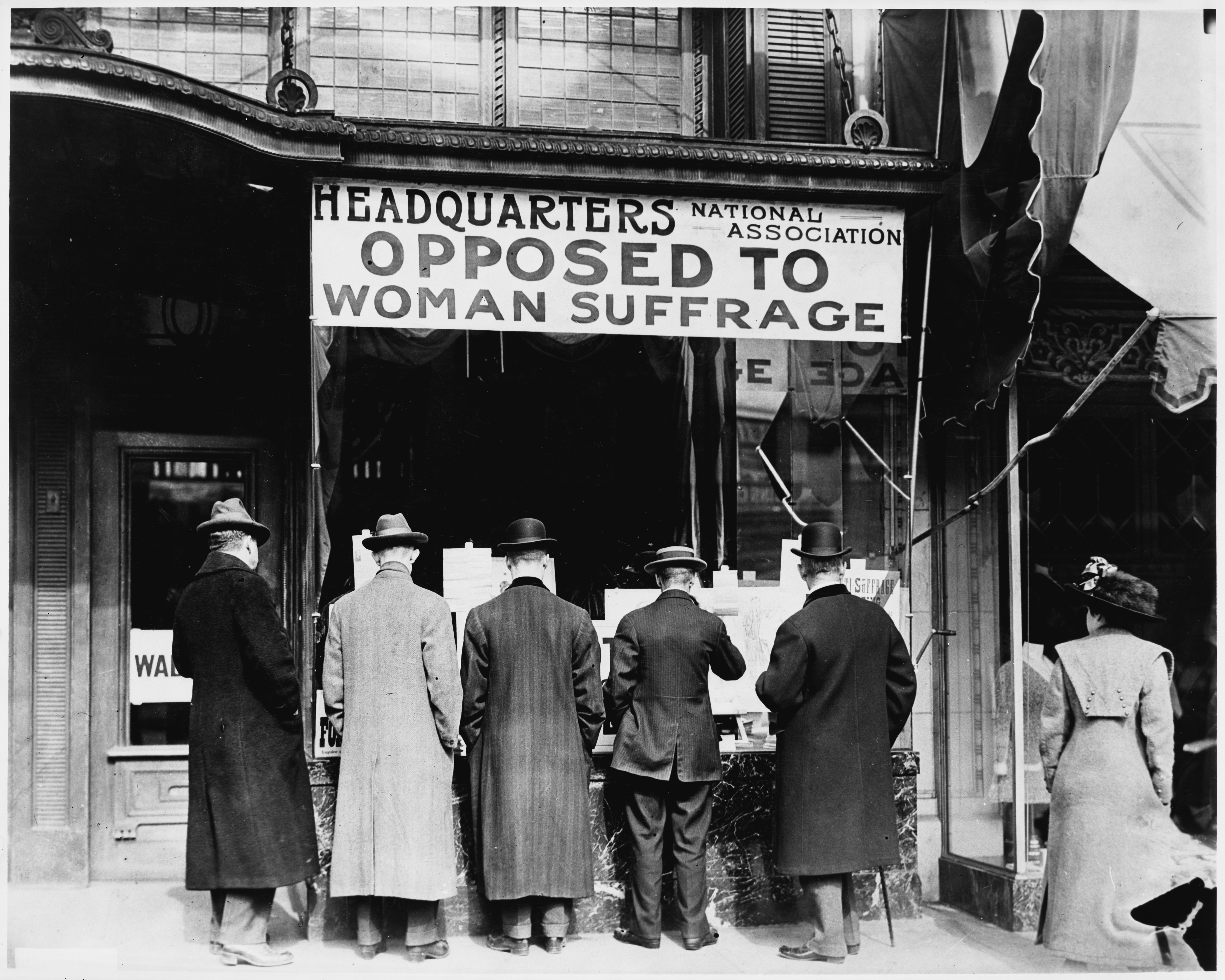 Picture of the entrance of the National Association Opposed To Woman Suffrage's headquarters. From Library of Congress. Thumbnail derivative of Image:National Association Against Woman Suffrage.jpg.